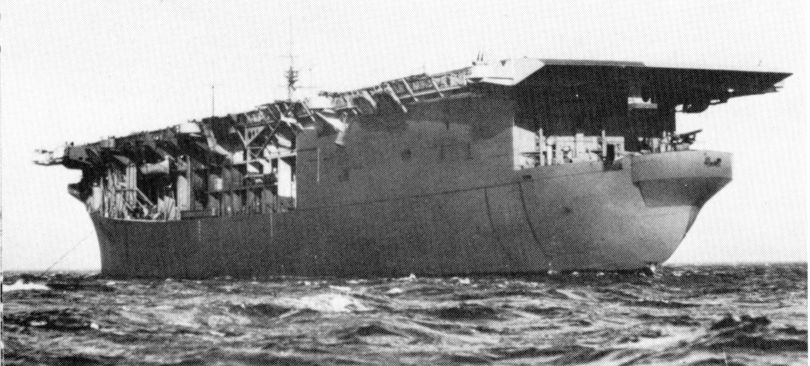 Undated image showing Archer from the stern angle.